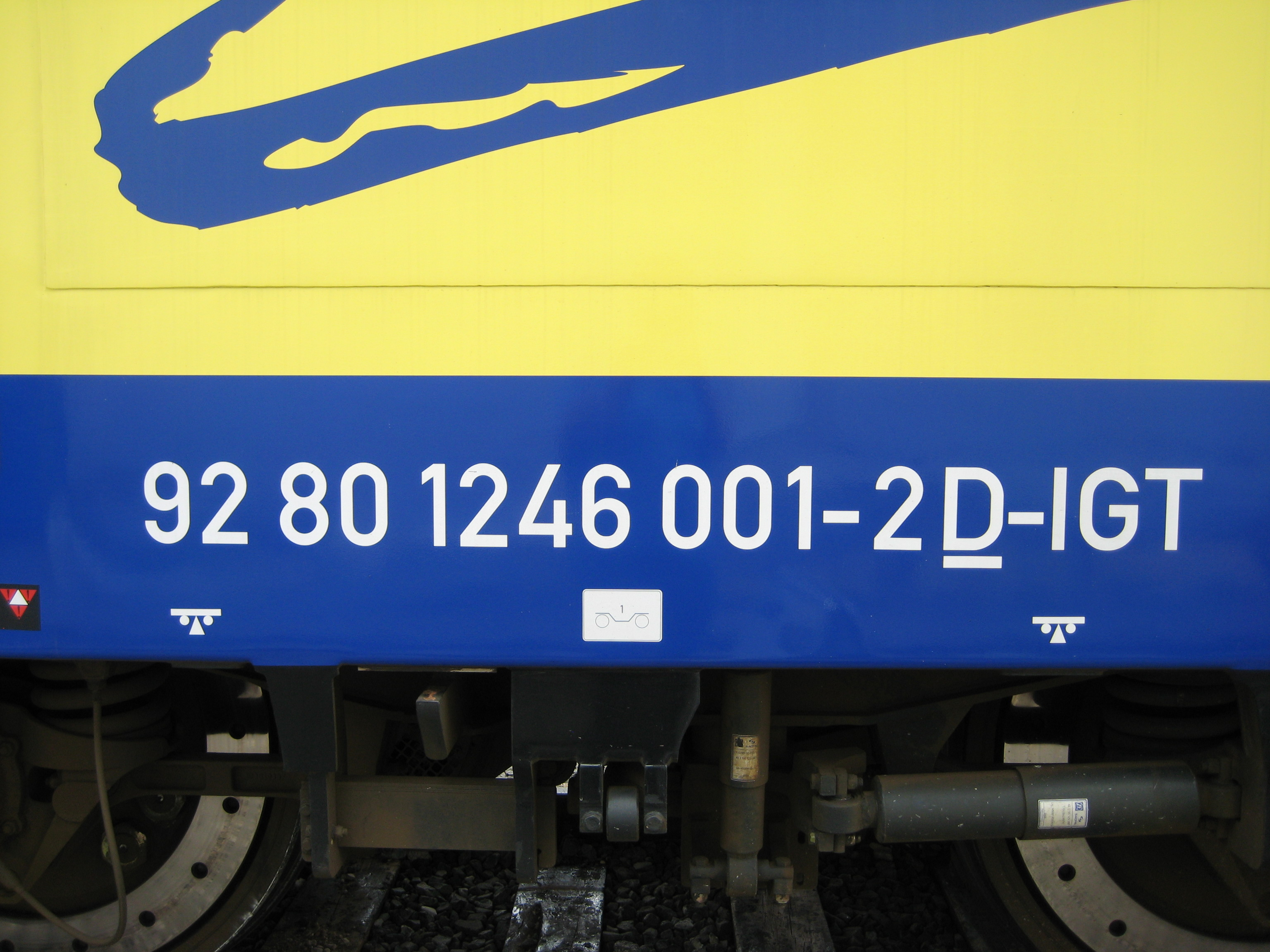 UIC number of the diesel-electrical locomotive 246 001 of Inbetriebnahmegesellschaft Transporttechnik mbH (IGT)